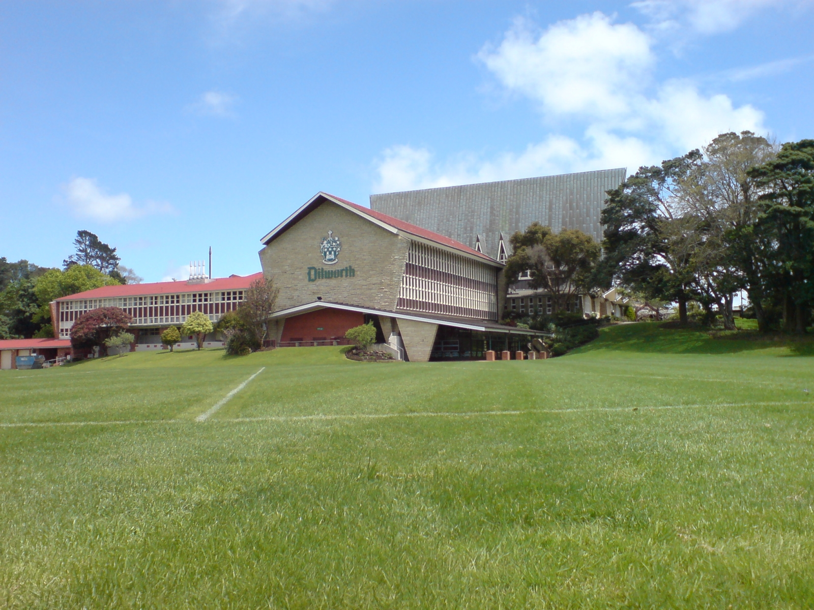 The Dilworth School in Epsom, Auckland City, New Zealand. While it looks like a very posh private school, it's not (a classical private school) - all of the boys who study here do so on full scholarships, with the school funded by a generous endowment from its founder.